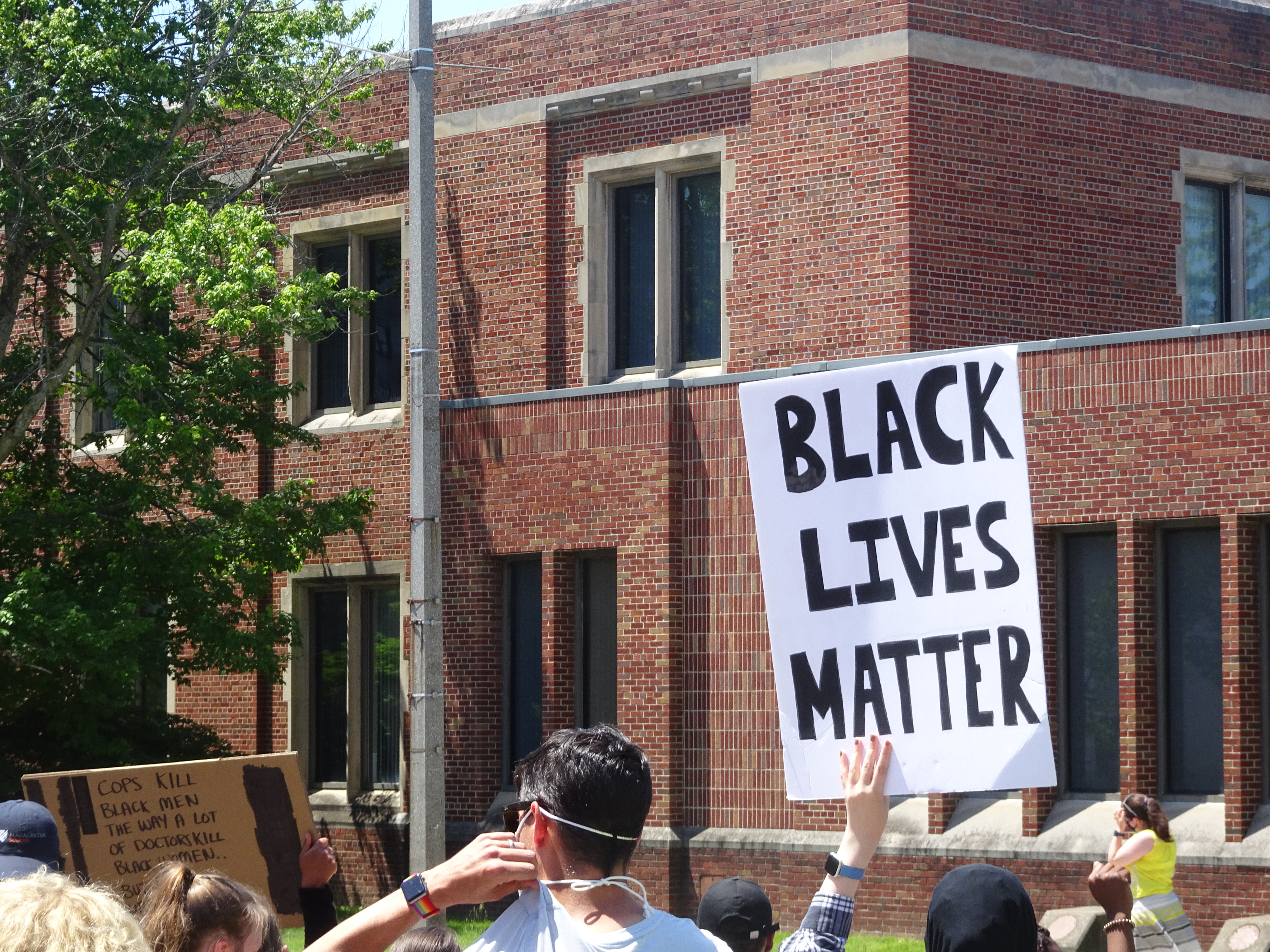 Sign saying "Black Lives Matter" at the George Floyd Protest in East Lansing, Michigan